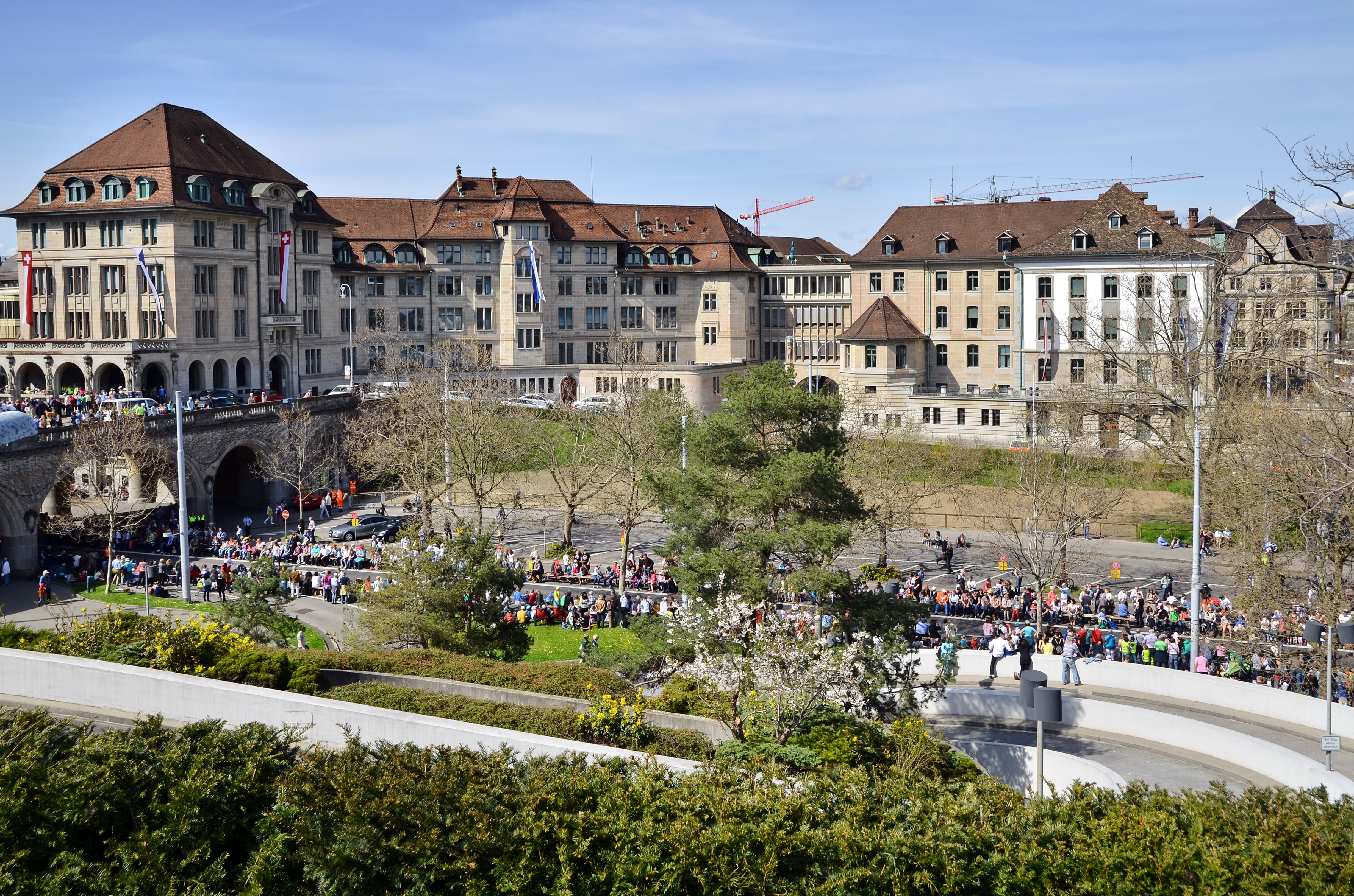 Amthaus I in Zürich (Switzerland), as of today the Stadtpolizei (City Police) station respectively the former Waisenhaus (orphanage) building of the Oetenbach nunnery, as seen from Lindenhof-Sihlbühl, Limmatquai to the right.